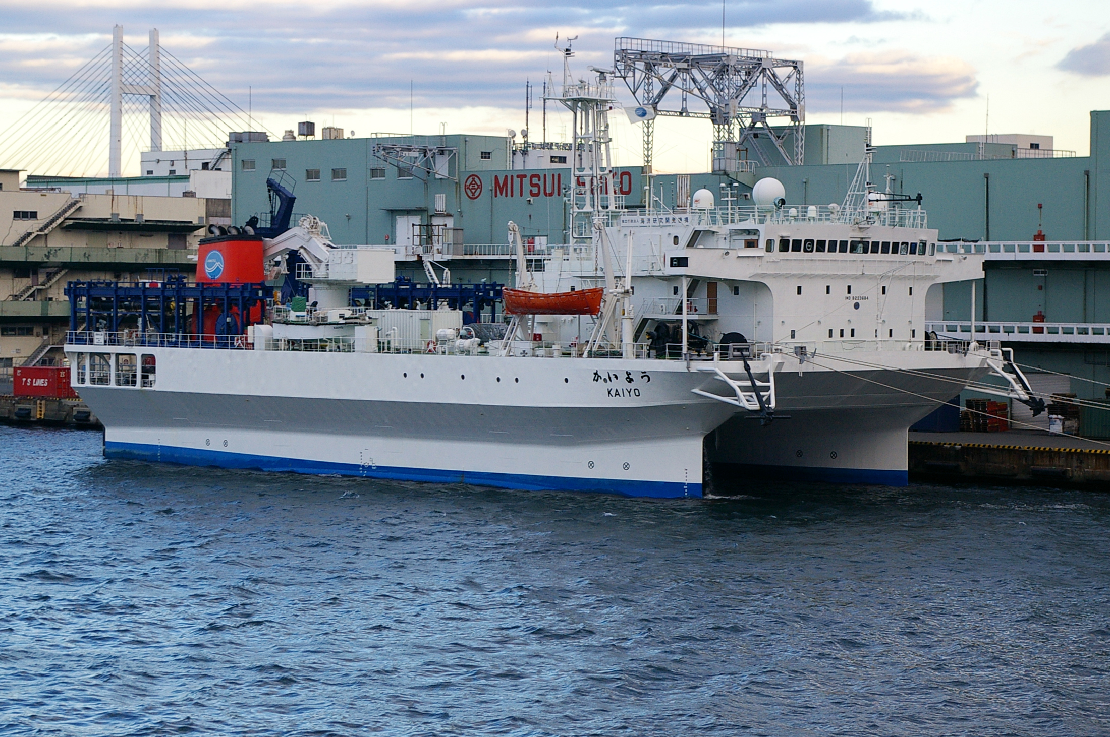 Kaiyo, Japan Agency for Marine-Earth Science and Tecnology Research Vessel. Taken Yokohama, Japan. IMO Number: 8223684 MMSI Number: 431455000 Callsign: JRPG